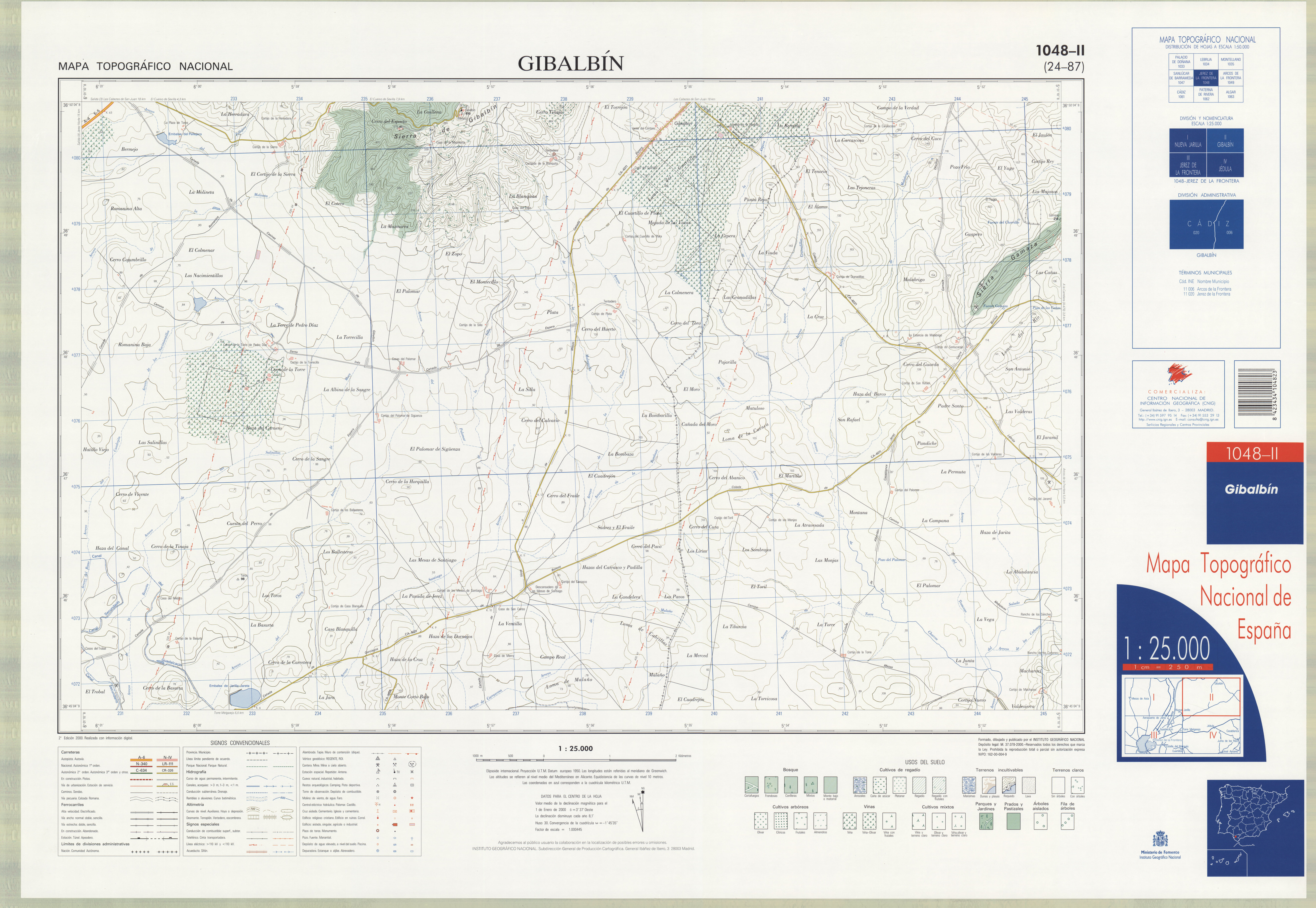 Fragment 1048c2 of the National Topographic Map of Spain in 2000 at a scale of 1:25000 printed and scanned with a resolution of 250 ppi. It shows Gibalbin.